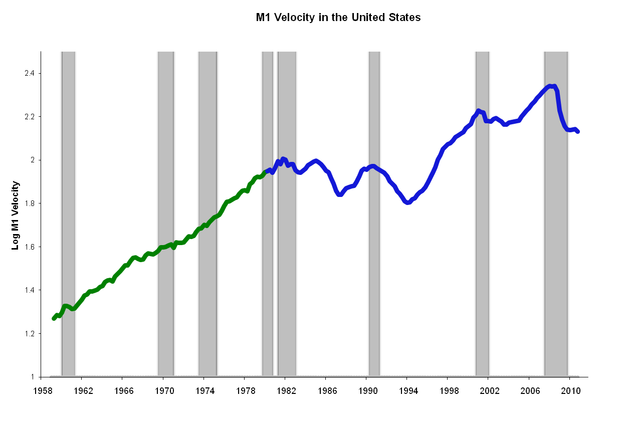 Log M1 money velocity in the United States from 1959 through 2011. Data is from the St. Louis Fred database[1]. The data series changes color in 1980 to represent the end of constant money velocity.